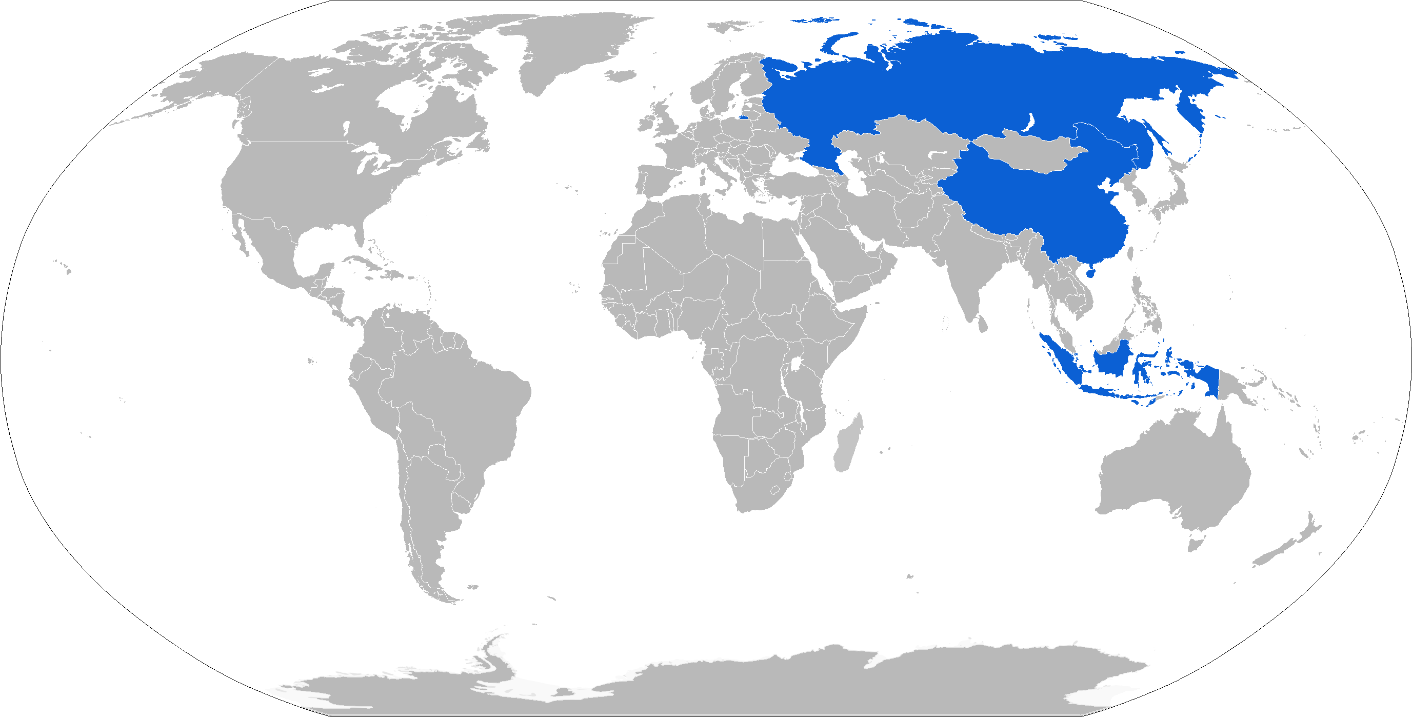 Map with Sukhoi Su-35 operators in blue